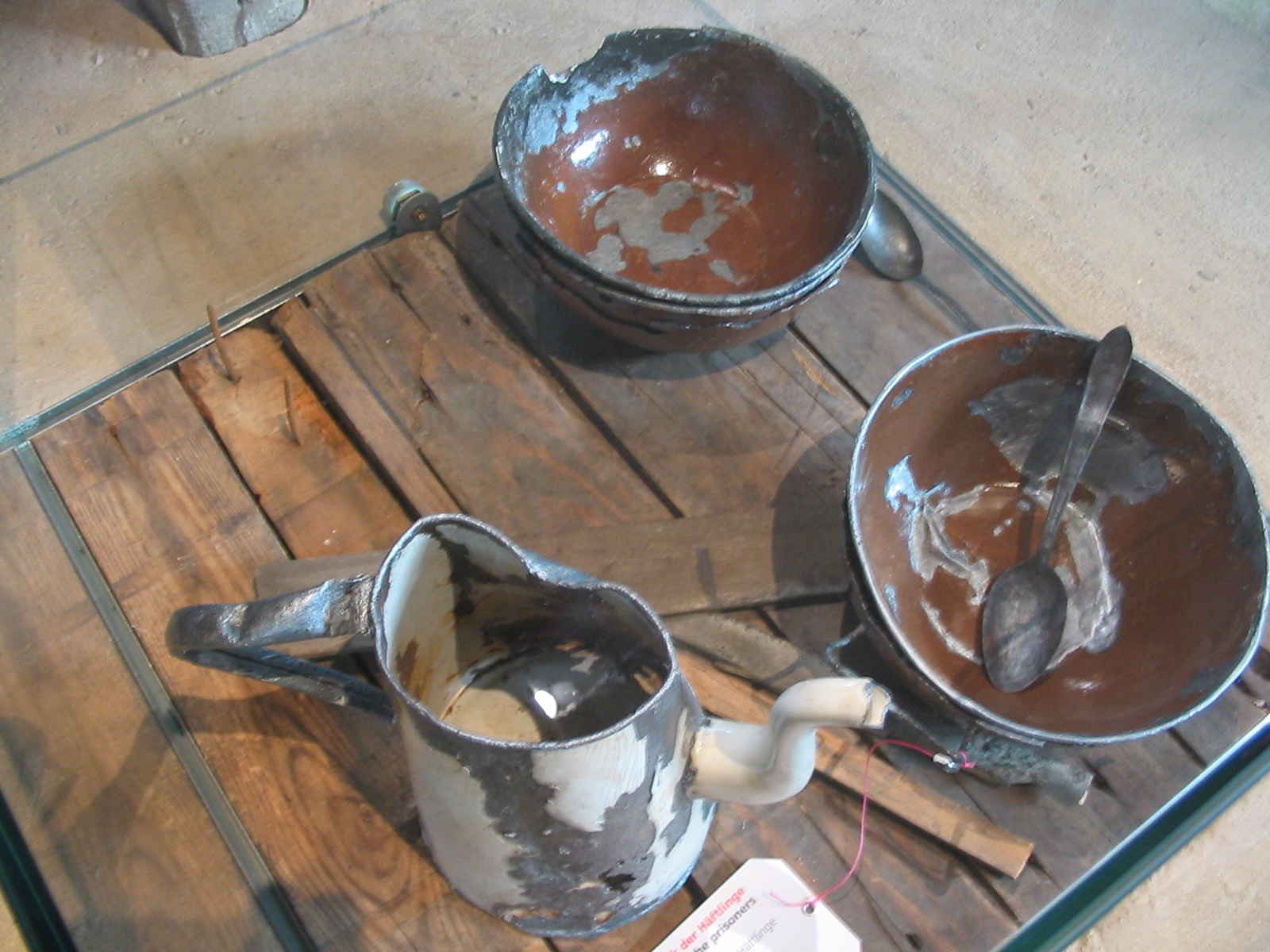 dishes and cutlery of the prisoners of Außenlager Annener Gußstahlwerk des KZ Buchenwald (Subcamp Annen Steelworks of concentration camp Buchenwald) at Westfälisches Museum für Archäologie